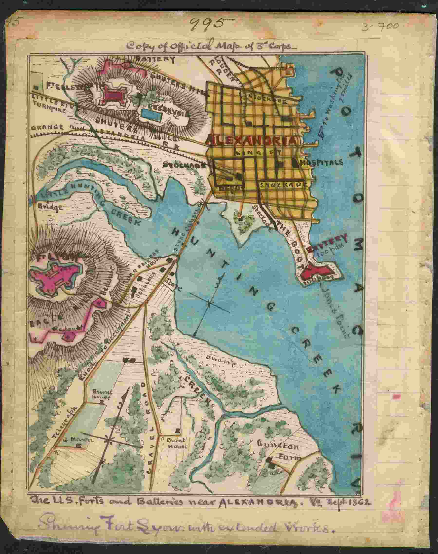 Shows the locations of Union fortifications surrounding Alexandria, Va., including forts Lyon and Ellsworth in Fairfax County. The locations of Hunting Creek and the Potomac River are also indicated.